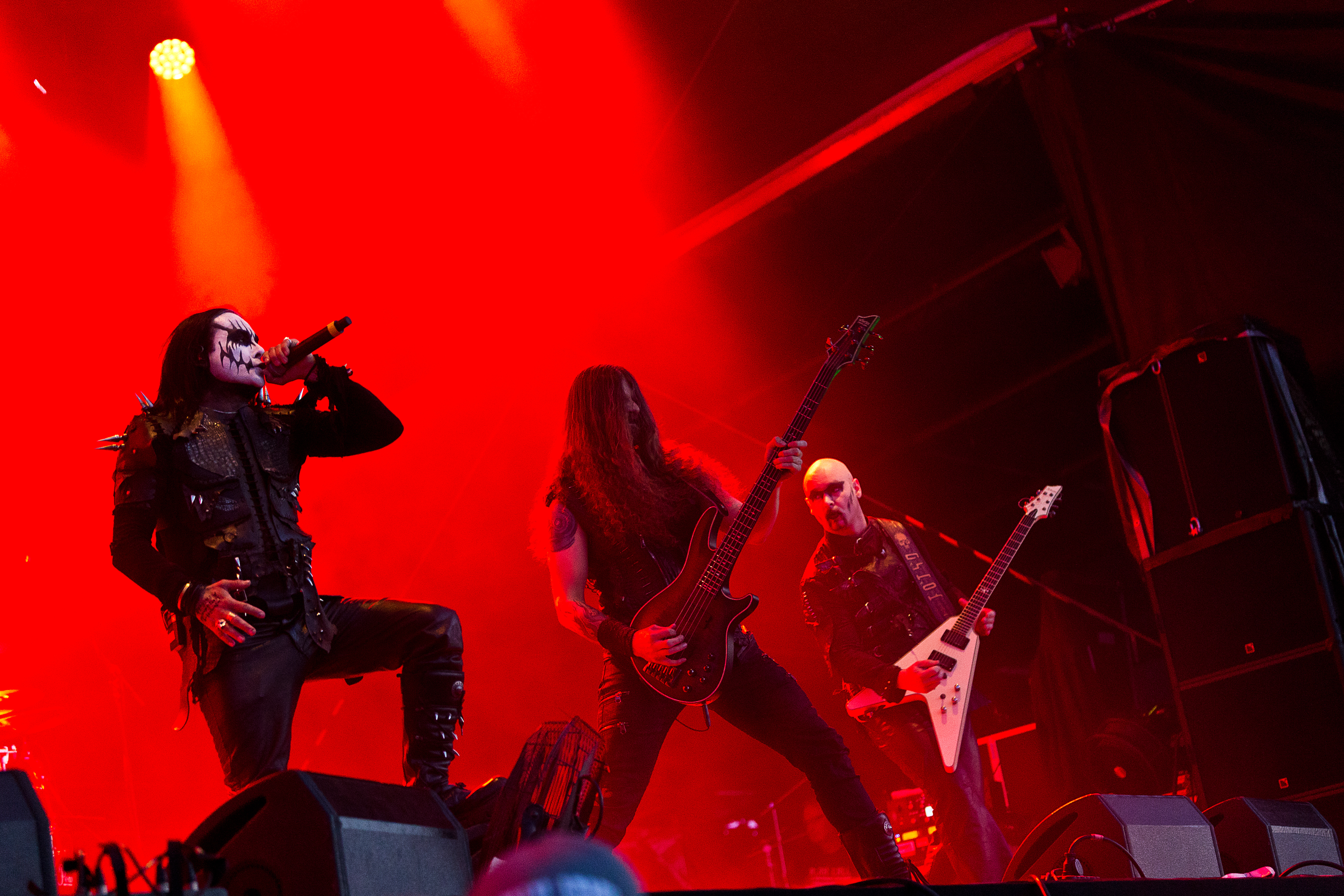 The British metal band Cradle of Filth at the Rockharz Open Air 2015 in Ballenstedt/Germany.